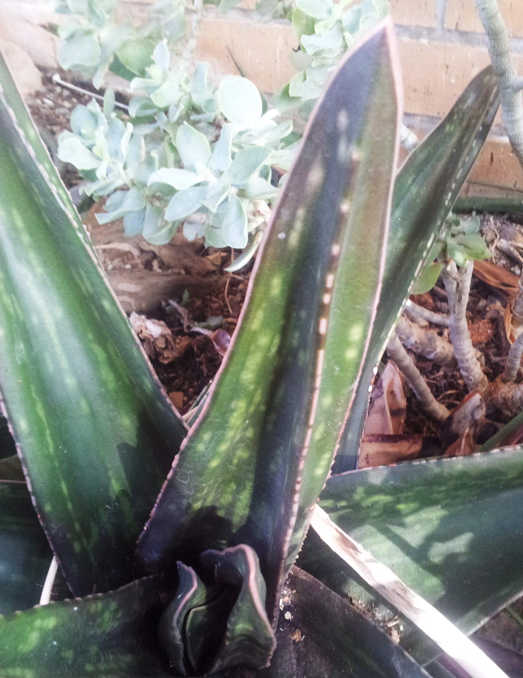 Leaf detail of Gasteria excelsa varieties